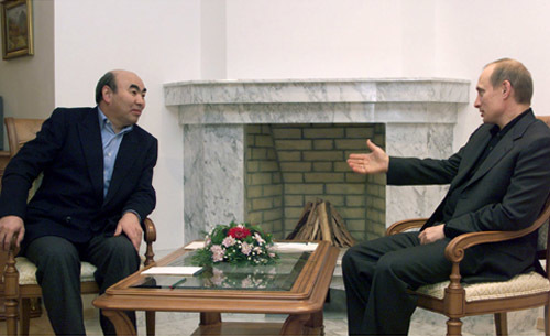 ALMATY. President Vladimir Putin with Kyrgyz President Askar Akayev.